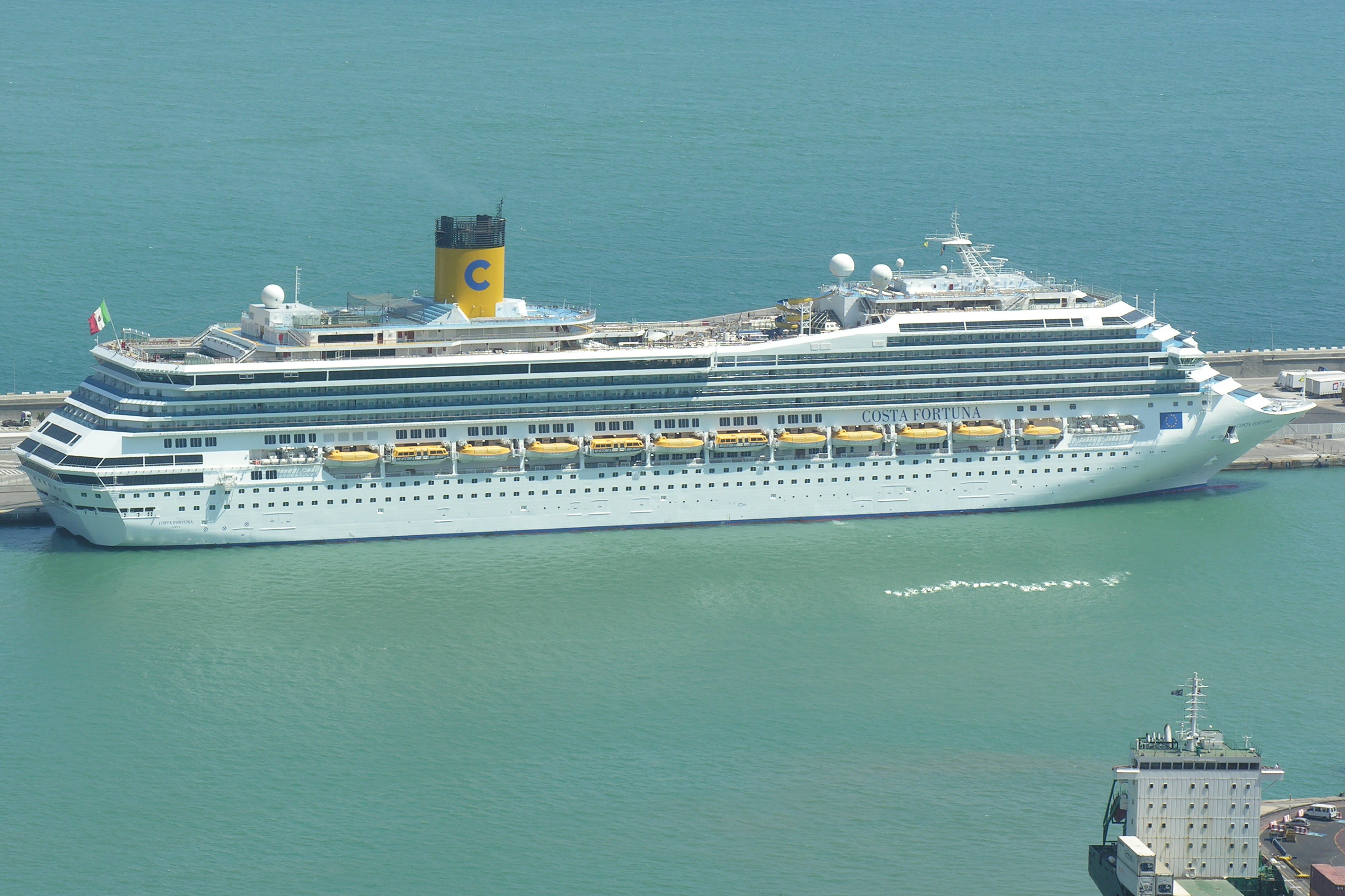 Costa Fortuna docked in the Port of Barcelona, Spain